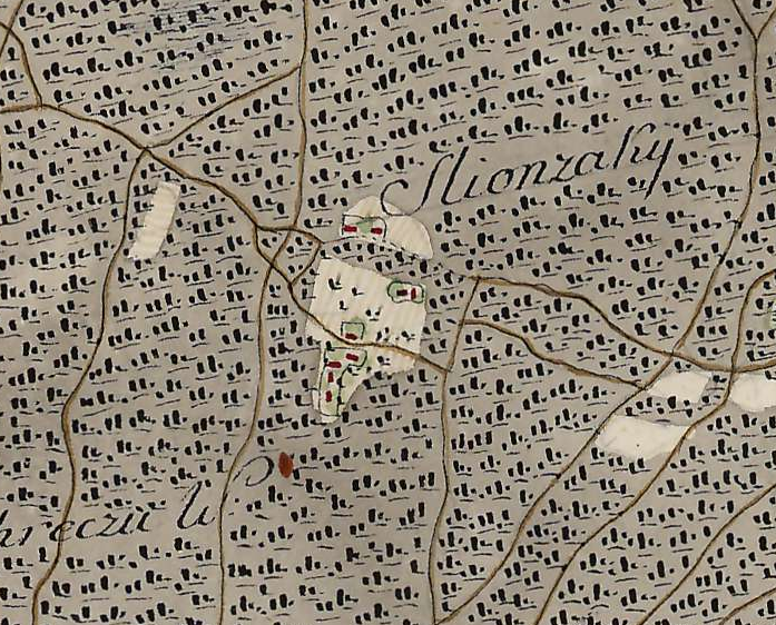 Szlązaki on the so called Miege's Map